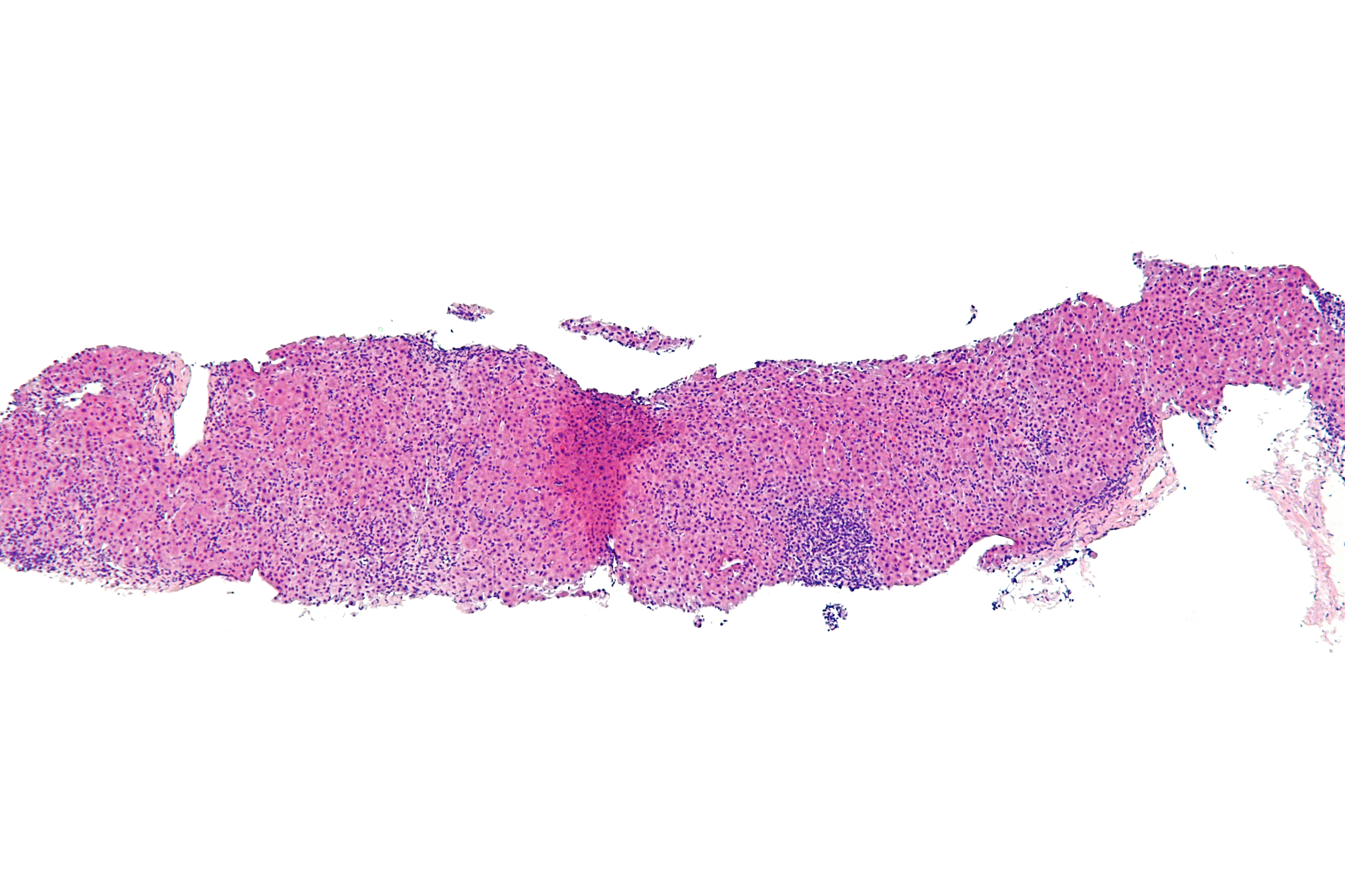 Low magnification micrograph of autoimmune hepatitis. H&E stain. The characteristic feature is present: Lymphoplasmacytic interface hepatitis - plasma cells and lymphocytes at the interface between the portal tract and liver lobule. Interface hepatitis per se is non-specific; it may be seen in viral hepatitides. The plasma cells are what is important! Related images Low mag. Intermed. mag. High mag. Very high mag. Very high mag. (cropped)